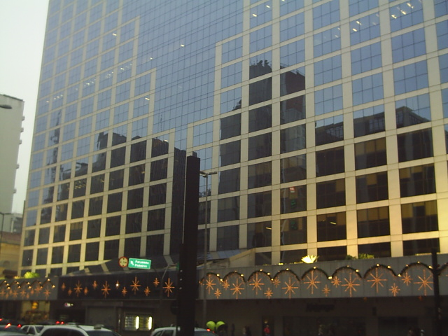 São Luís Gonzaga Building, in São Paulo City.